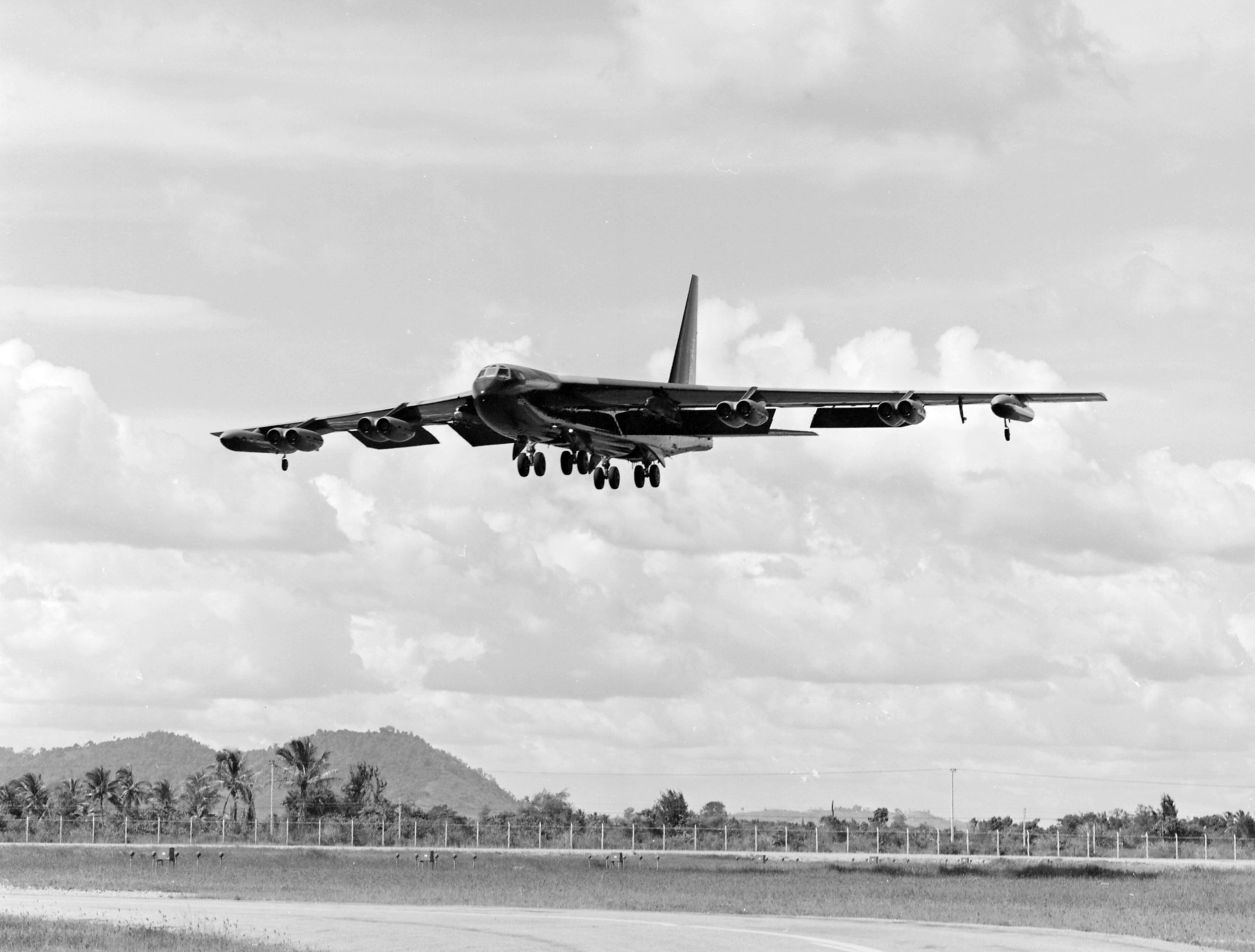 A U.S. Air Force Boeing B-52D Stratofortress aircraft coming in for a landing at U-Tapao air base, Thailand, after a mission over Vietnam.